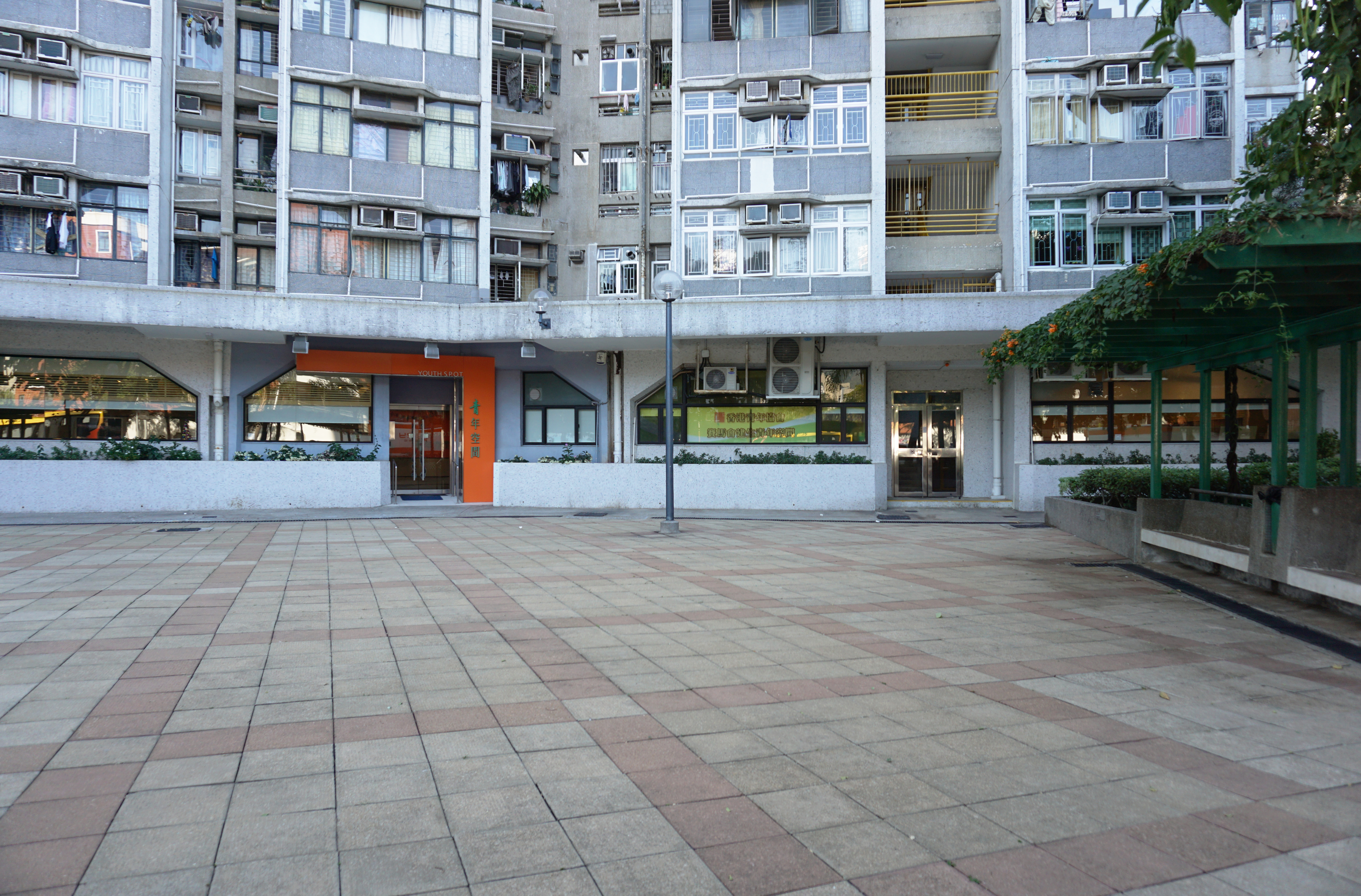 Kin Sang Estate in Tuen Mun, Hong Kong.